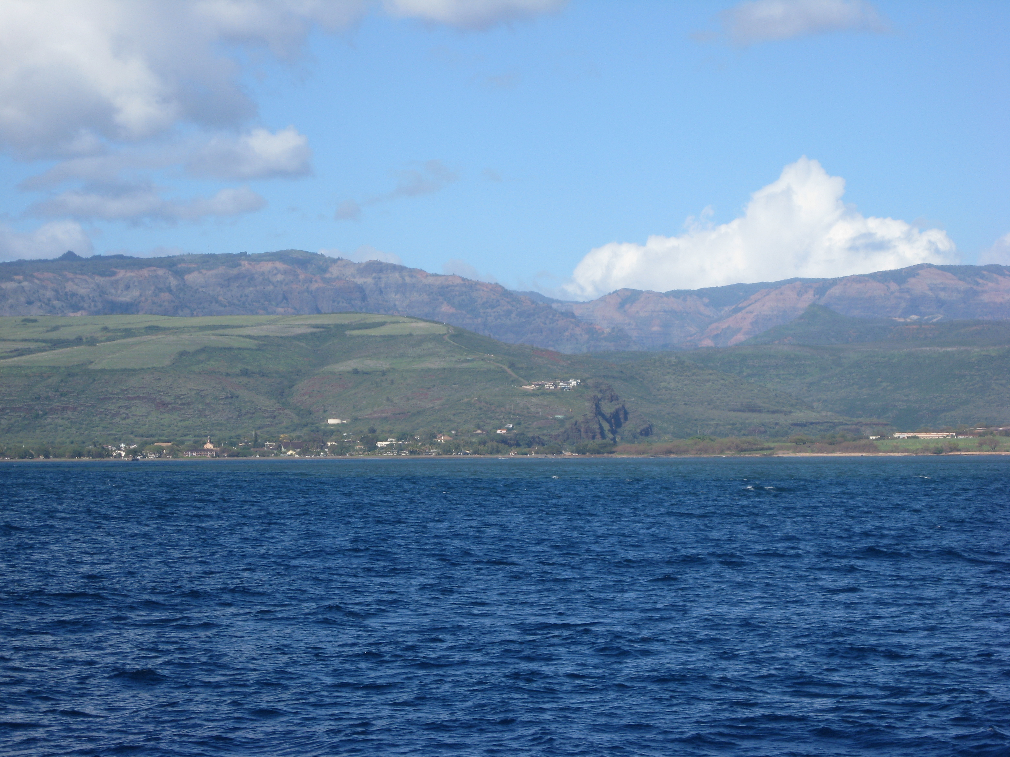 Waimea on the island of Kauai, as seen from the ocean. Waimea was Captain James Cook's first landing point in Hawaii in 1778.